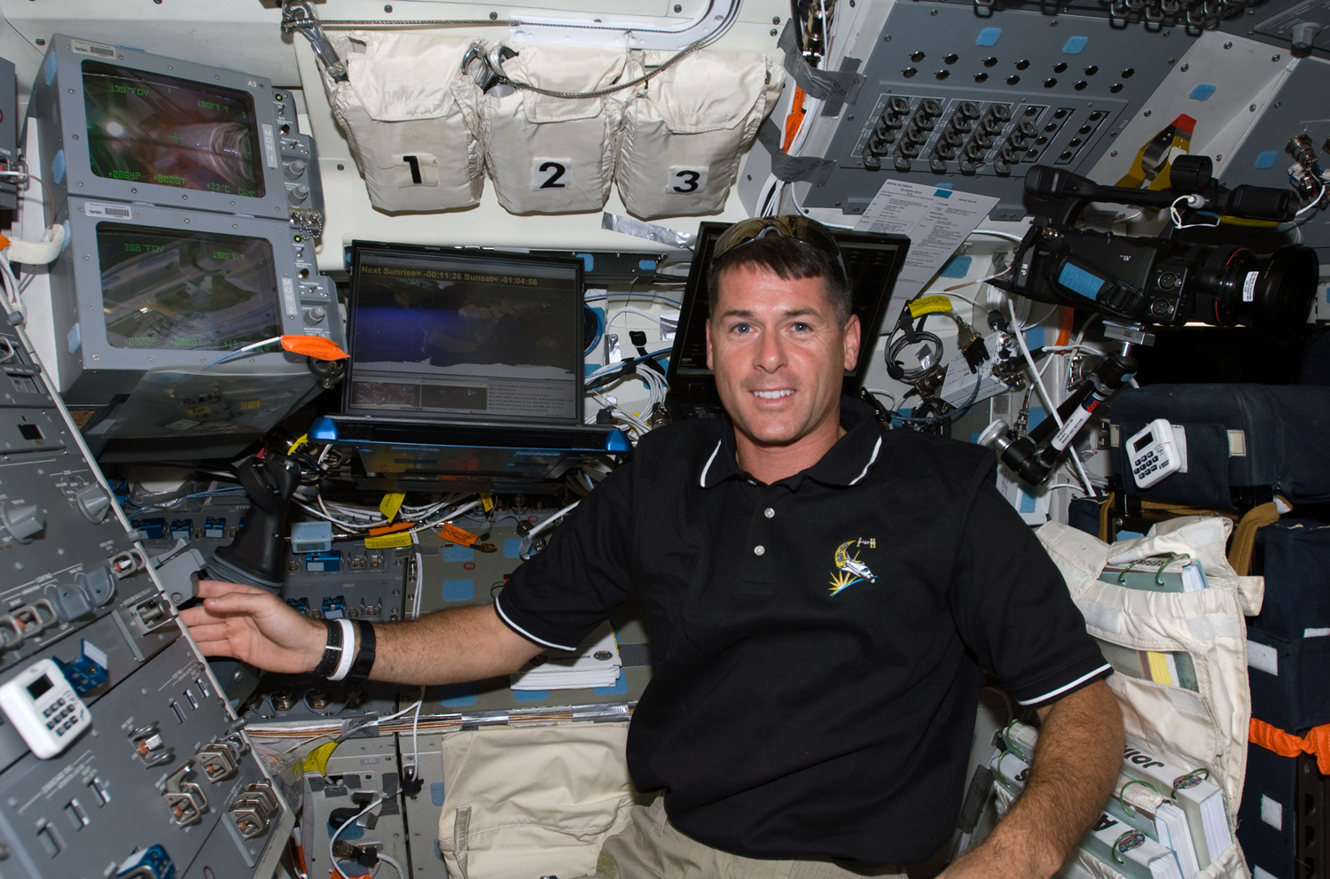 On the aft flight deck of Endeavour, astronaut Shane Kimbrough, STS-126 mission specialist, stops for a picture. Kimbrough is one of seven astronauts heading to the International Space Station.